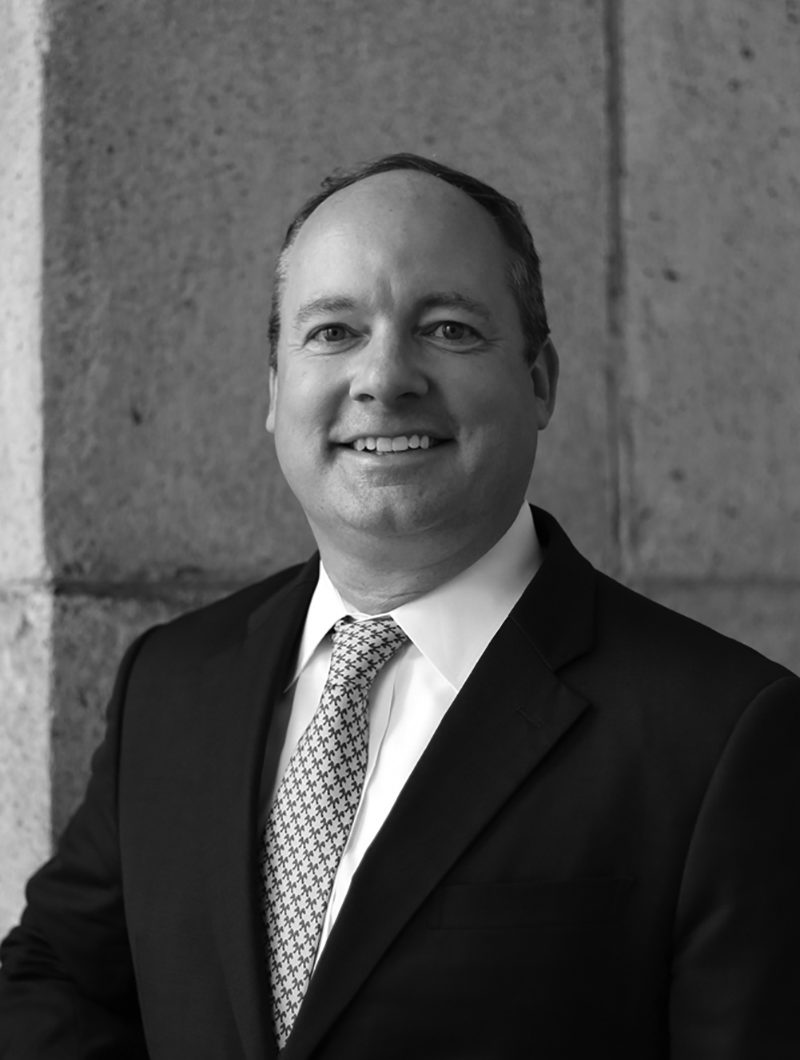 Profile of Eric Stallmer